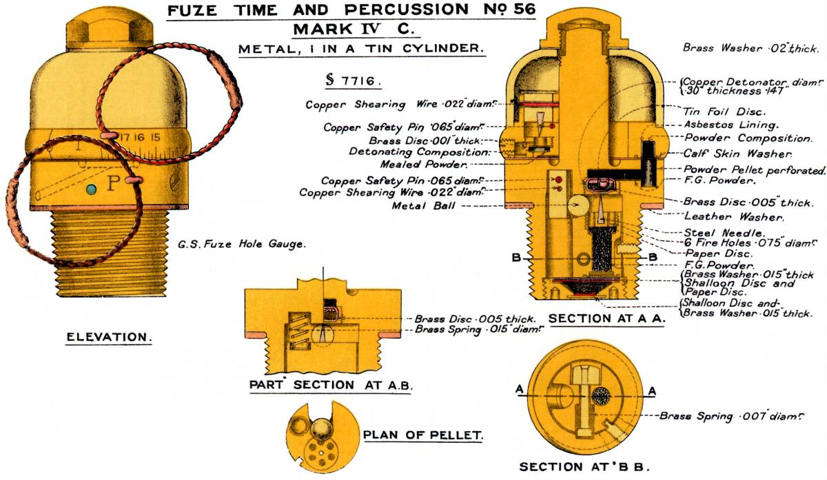 Diagram of British No. 56 Mk IV C Time & Percussion Fuze, as used in the Second Boer War. No. 56 was in service from 1894, declared obsolete 1921. It was classed as a "Small T. and P. Fuze of G.S. Gauge". Mk IV is a misnomer as there were no previous Marks. The fuze fits a 1 inch "G.S" socket. Single time ring, maximum burning time 13 seconds. Listed in 1915 for use with shrapnel shells for the following guns :- BL 15 pounder 7 cwt BLC 15 pounder BL 12 pounder 6 cwt QF 12 pounder 12 cwt naval gun BL 10 pounder Mountain Gun QF 2.95 inch Mountain Gun Mk IV* was similar except that it had .35 grains detonating composition for time portion instead of .2 grains. By 1914 it was long obsolete but stocks still remained. Replaced by Fuzes No. 60, 63, 65.